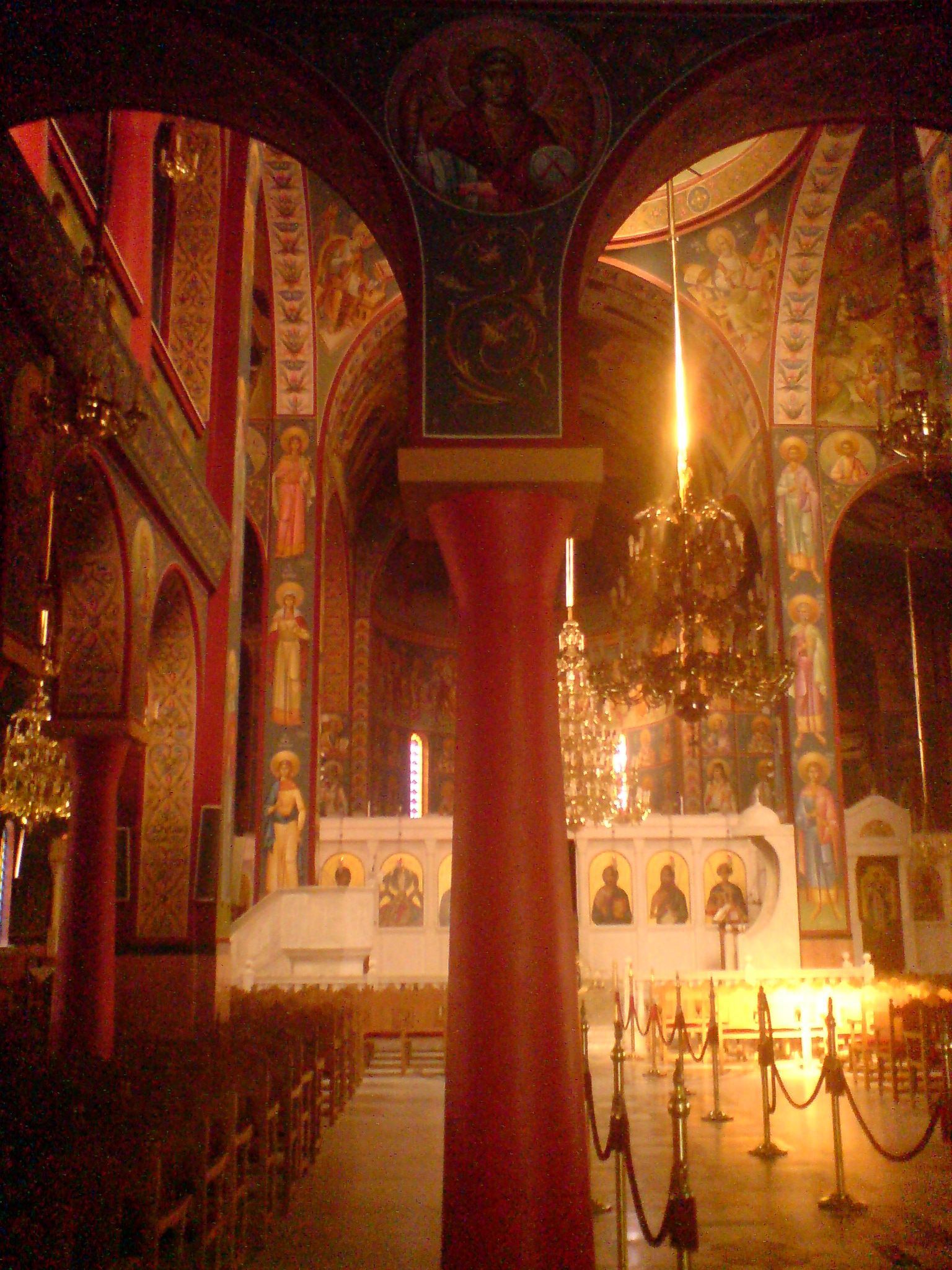 interior